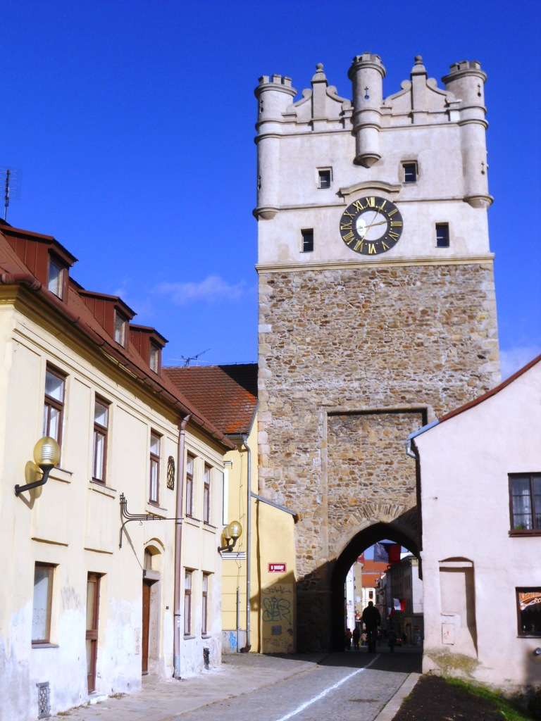 Jihlava, Tower of Our Lady